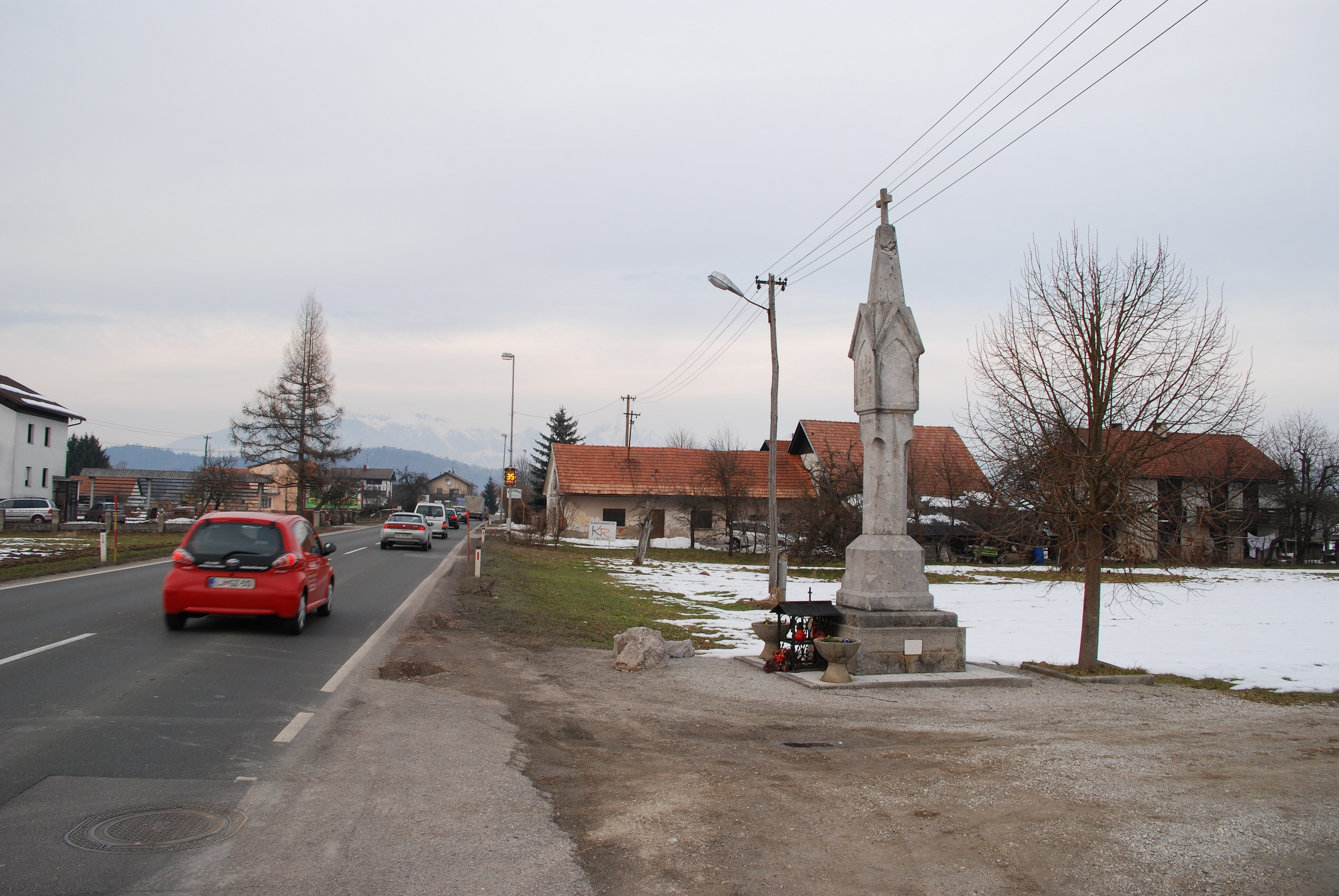 St. Florian's wayside shrine next to Mengeš Street in Trzin, Slovenia